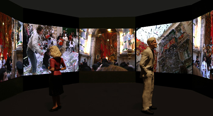 Model of the video art installation MALTA AS METAPHOR (Myriam Thyes, 2008) Scene: St. Paul's Feast, February 2006 and 2007